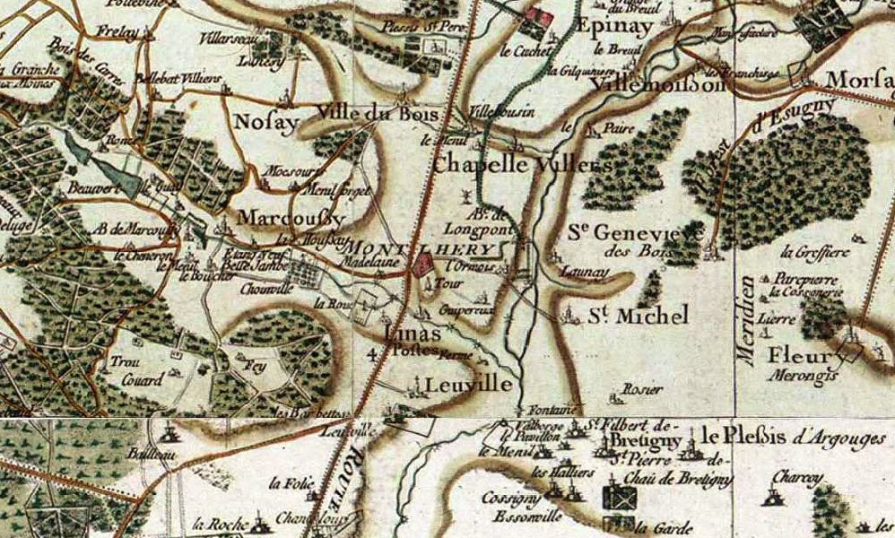 Carte Montlhéry selon Cassini